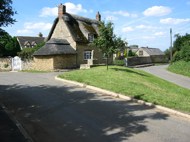 Buttercross Cottage, Barrow, Rutland, seen from the east, with the base and broken shaft of the stone cross in front